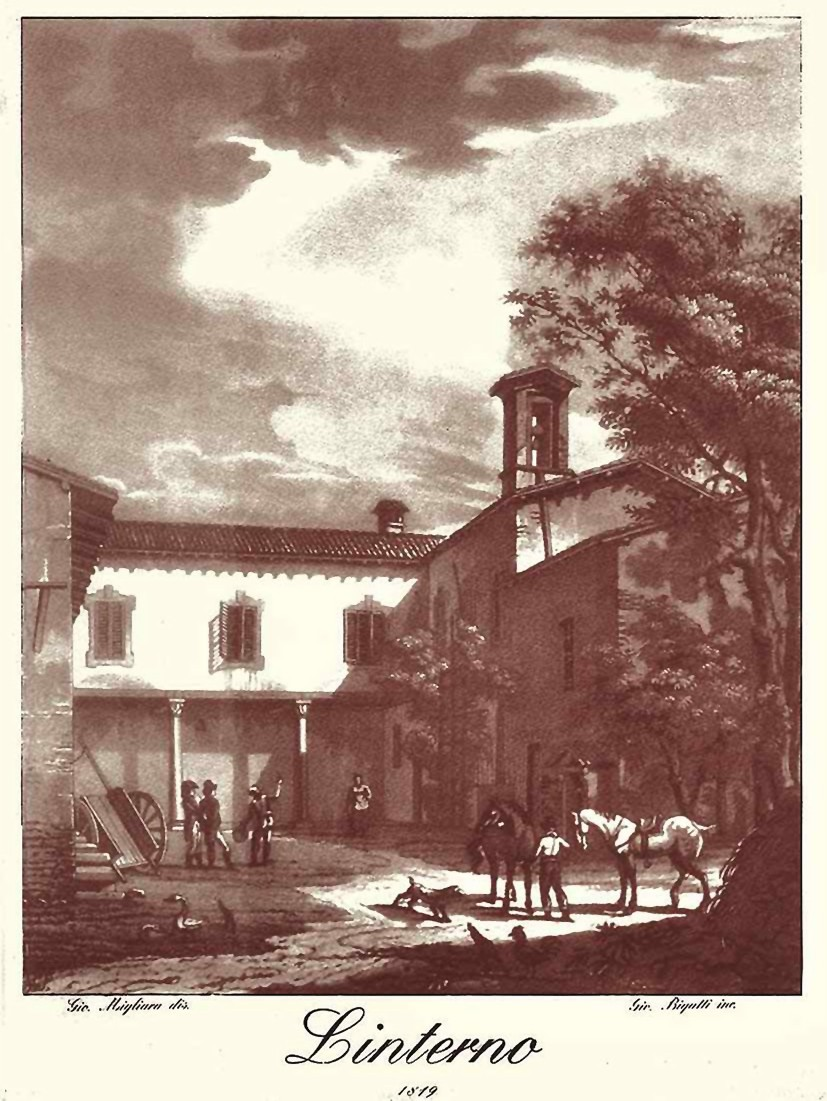 House of Francesco Petrarca (Petrarch) at Milan, locality Linterno. Represented by Giovanni Migliara in the 1819 edition of Petrarch's "Le rime" (Canzoniere) by Antonio Marsand.